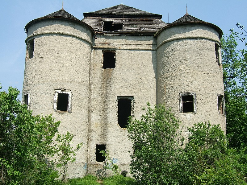 Dolná Mičiná castelSlovenčina: kaštieľ Dolná Mičiná